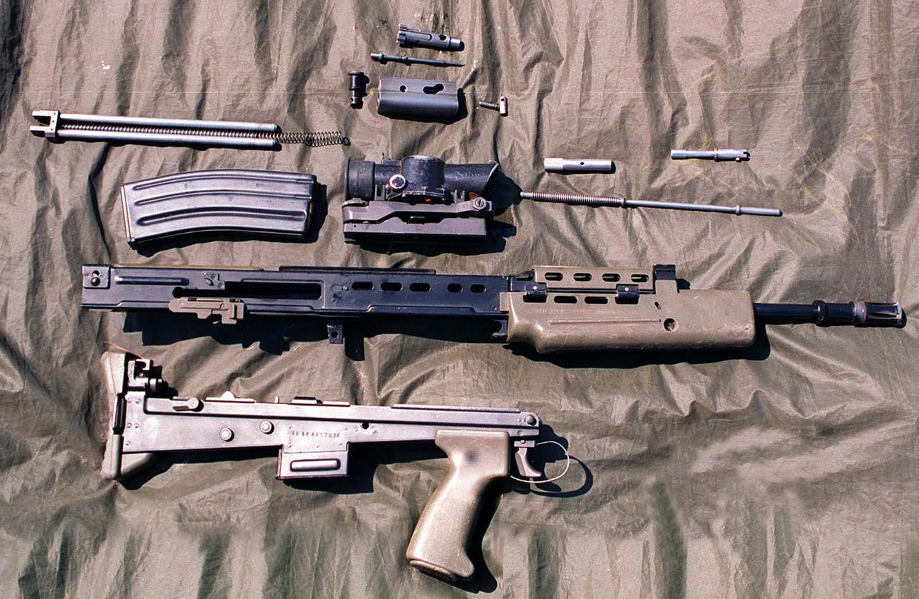 An SA-80 (LA85A1) rifle stripped in 1996. The cocking handle is left of the bolt carrier.